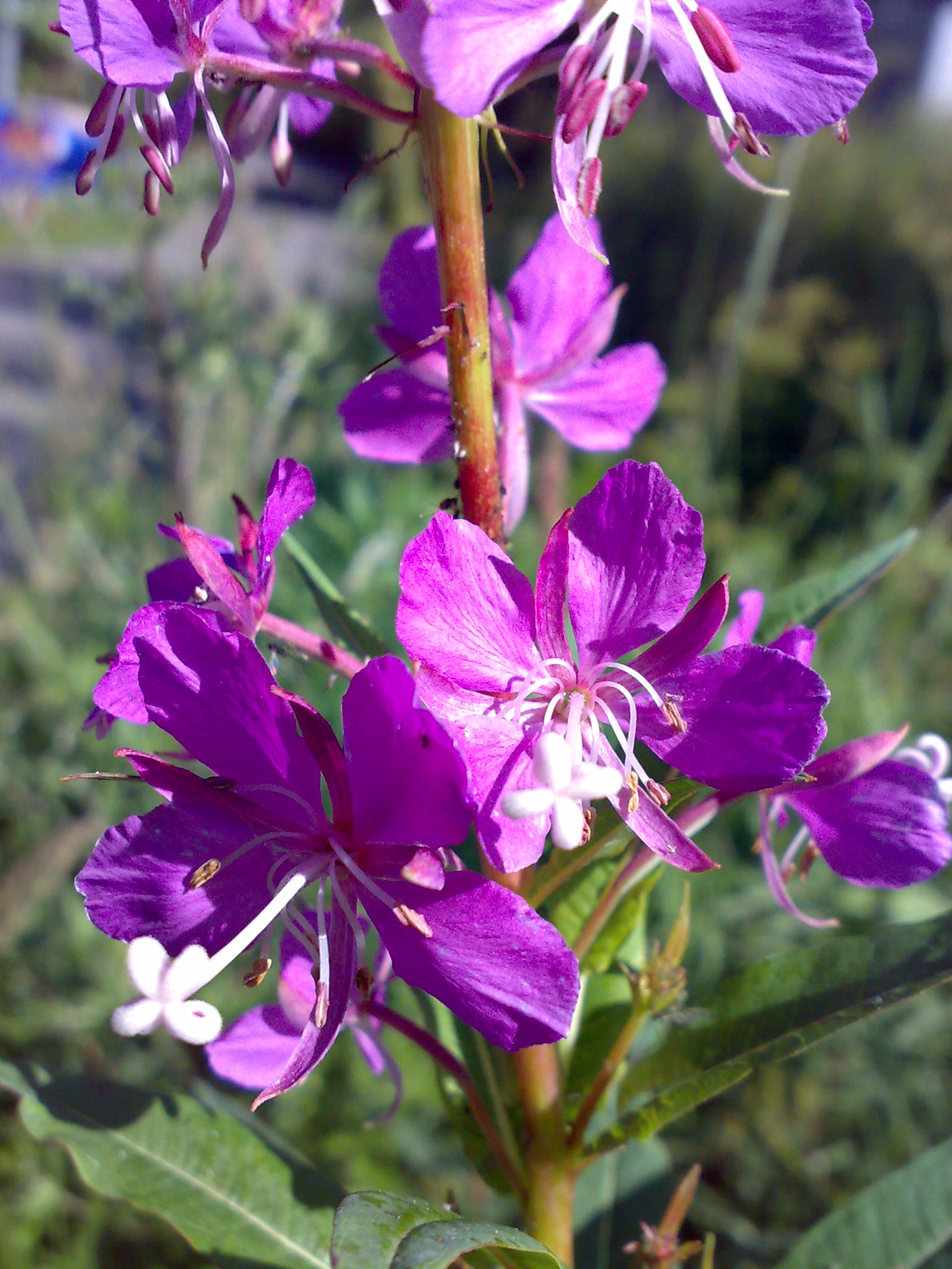 Epilobium angustifolium